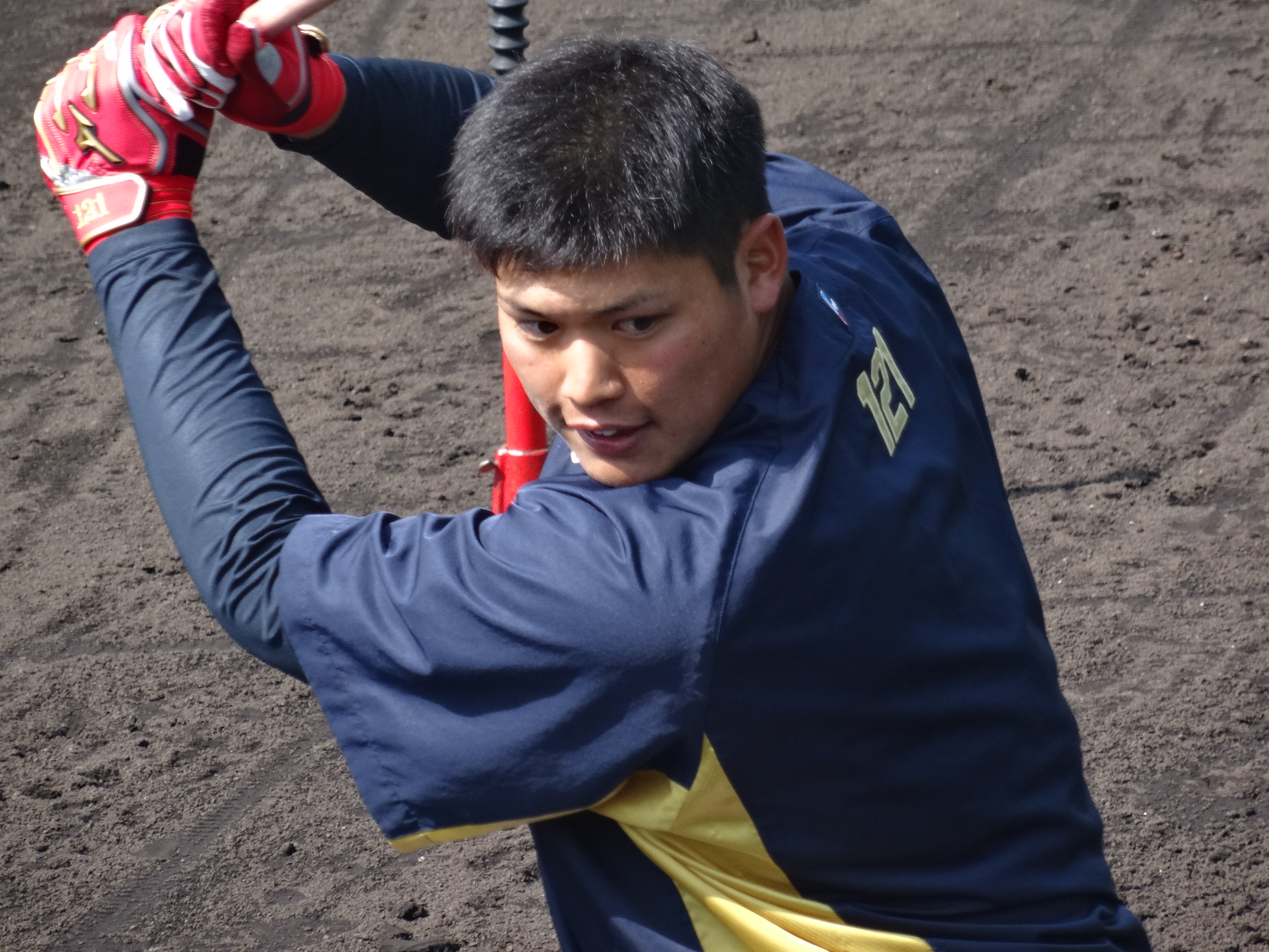 Kosuke Akamatsu, catcher of the Orix Buffaloes, at Hanshin Naruohama Baseball Ground